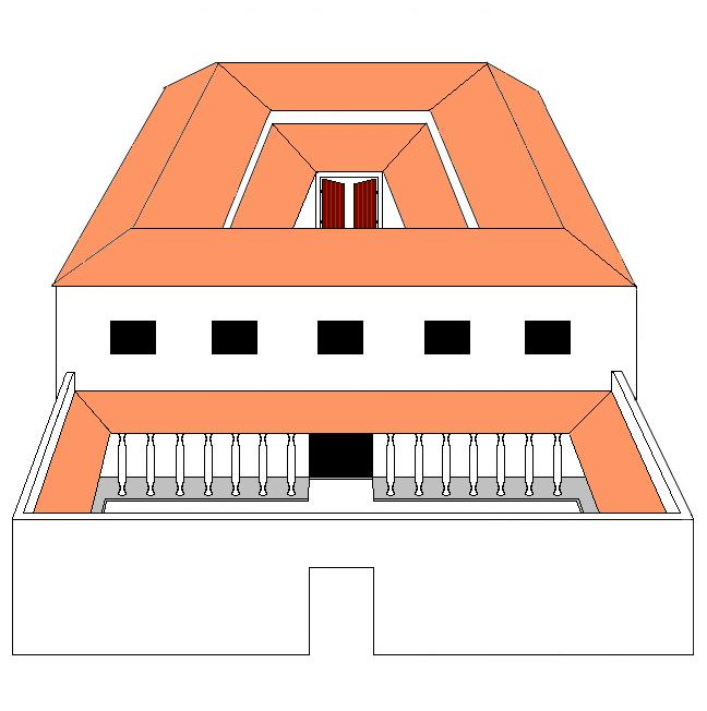 Schematic image of a roman Villa Urbana